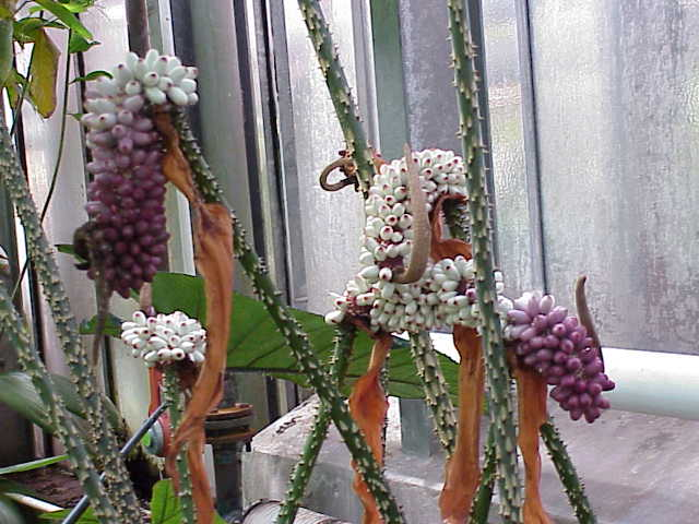 Species: Anchomanes giganteus Family: Araceae Image No. 3